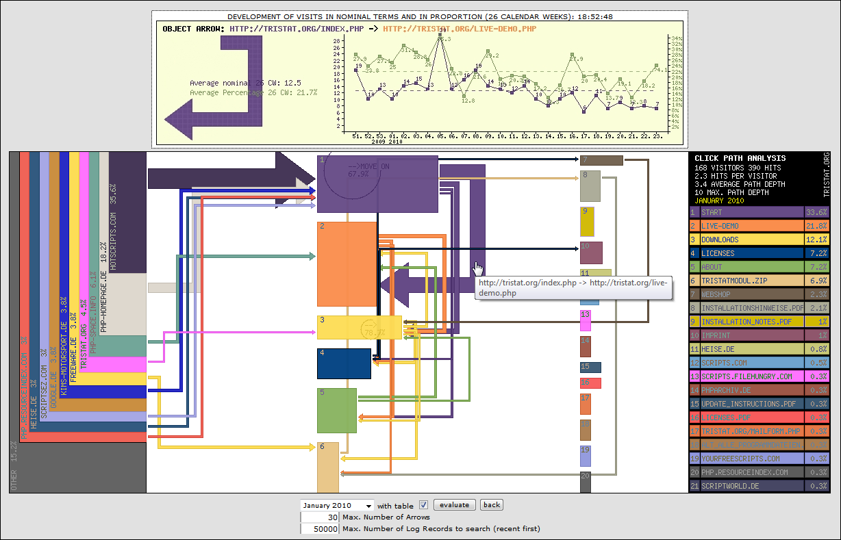 A visual Clickpath Analysis showing the Referers (pages where the visitors come from) on the left and the evaluated objects as rectangles. A greater width than height means a higher percentage of visitors passing to another page; a greater height means a higher bounce rate (visitors leaving). The expanse of the rectangles as well as the thickness of the arrows symbolize the amount of visitors passing this way. On top additional information about one arrow over a time period is shown.